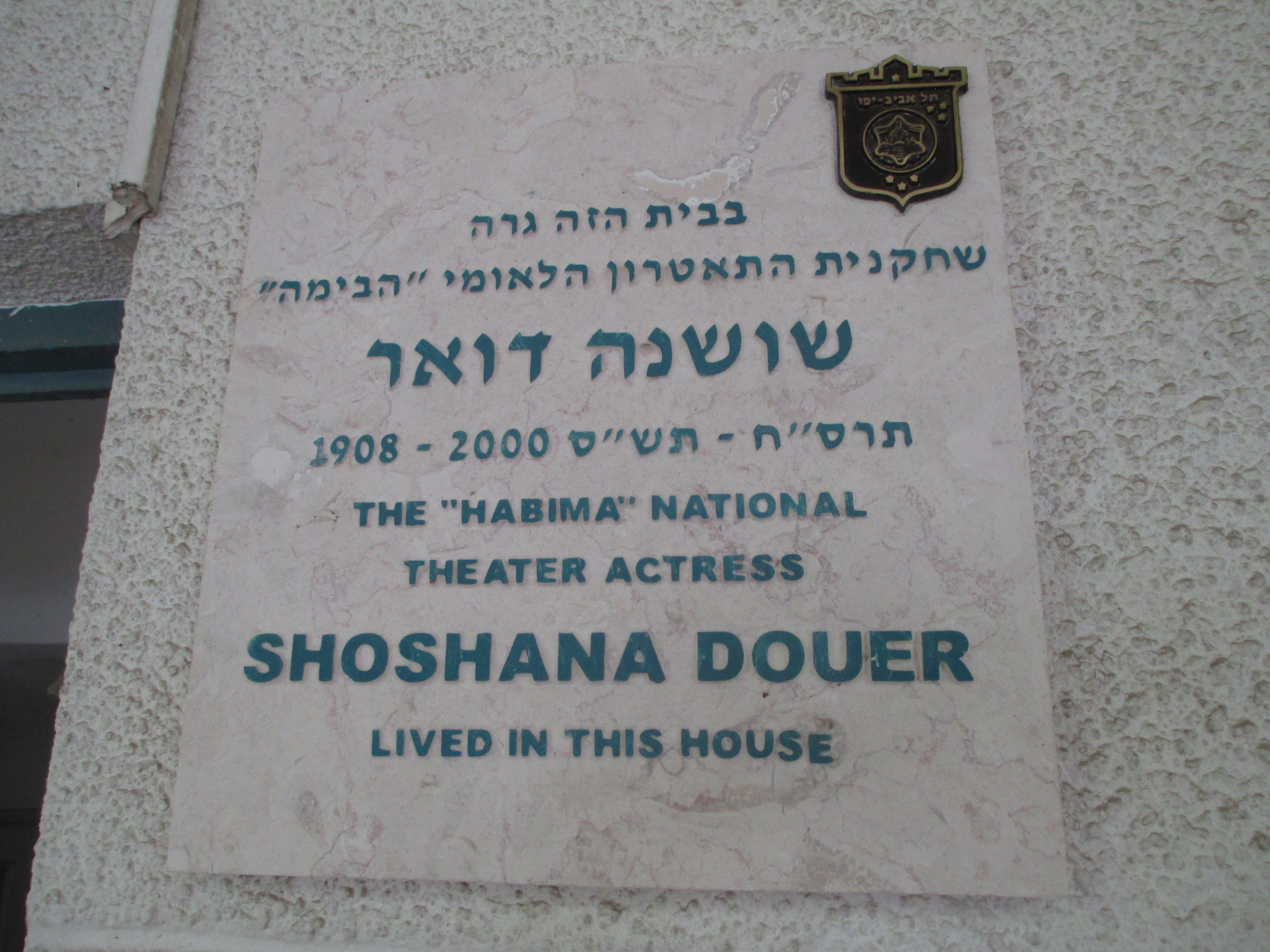 memorial plaque to habimah actress shoshana douer